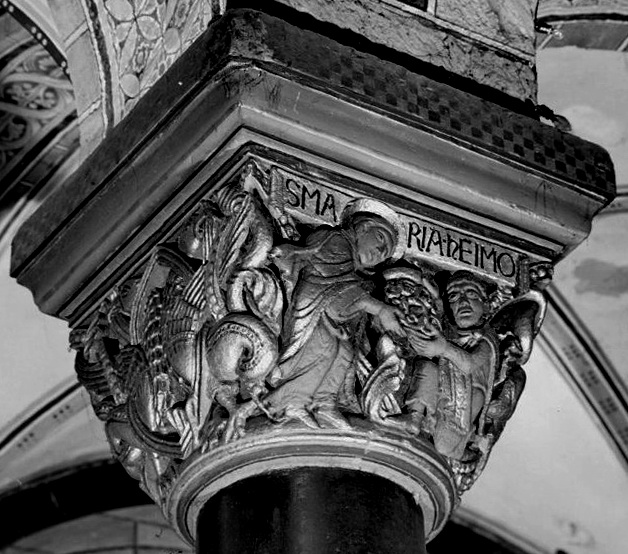 Romanesque capital in the choir of the Basilica of Our Lady in Maastricht. The so-called Heimo capital depicts a stoneworker or the patron (Heimo?) handing over a carved capital to the virgin Mary.